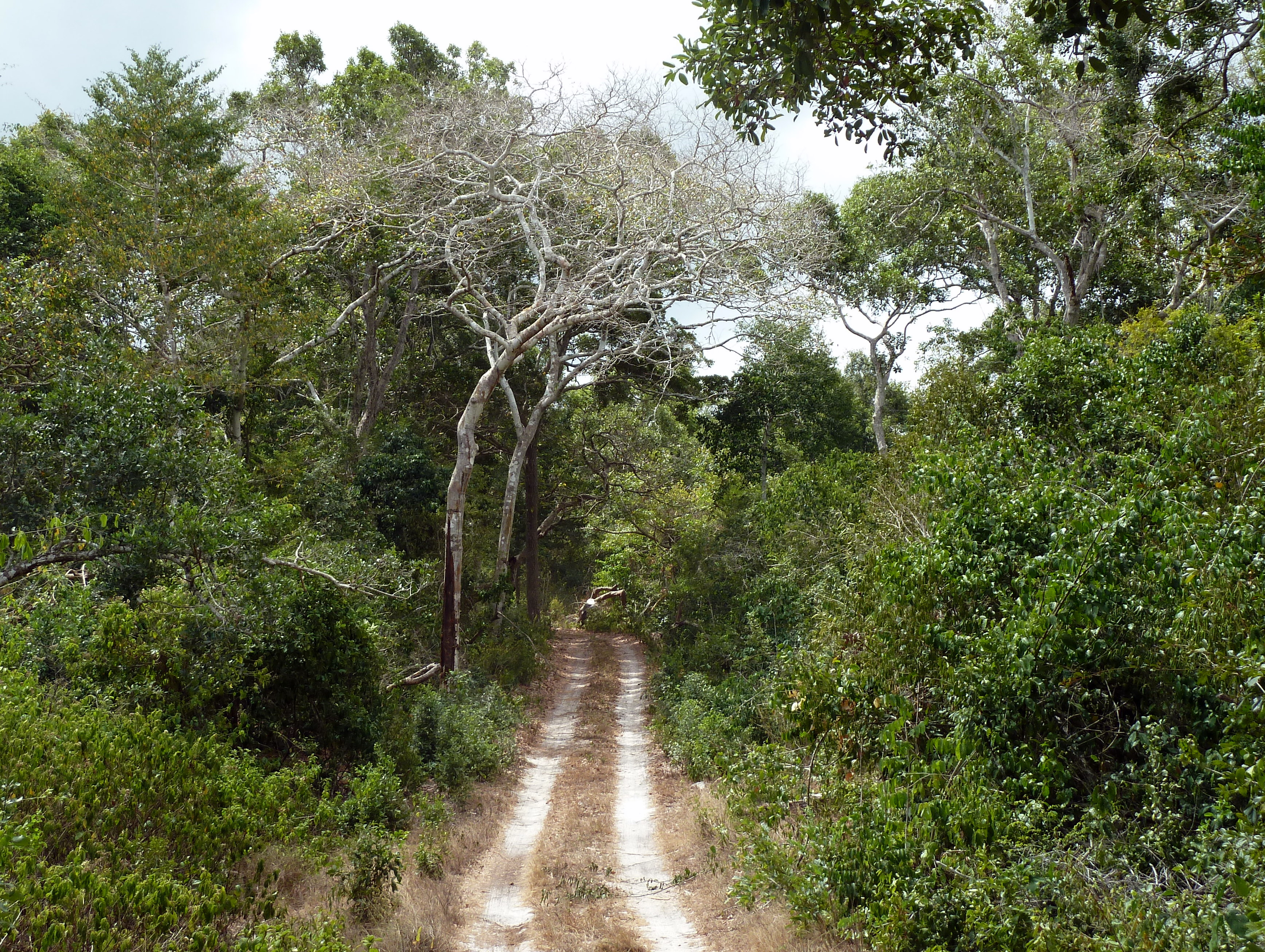 The road in Arabuko Sokoke Forest